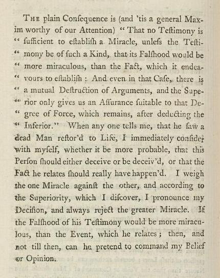 I paid the Cambridge University Library to have this photograph taken of a page of an original edition of David Hume's Enquiry (1748). As I understand it, because the source material is out of copyright, and because the photograph is of no artistic merit, then there are no copyright issues involved.